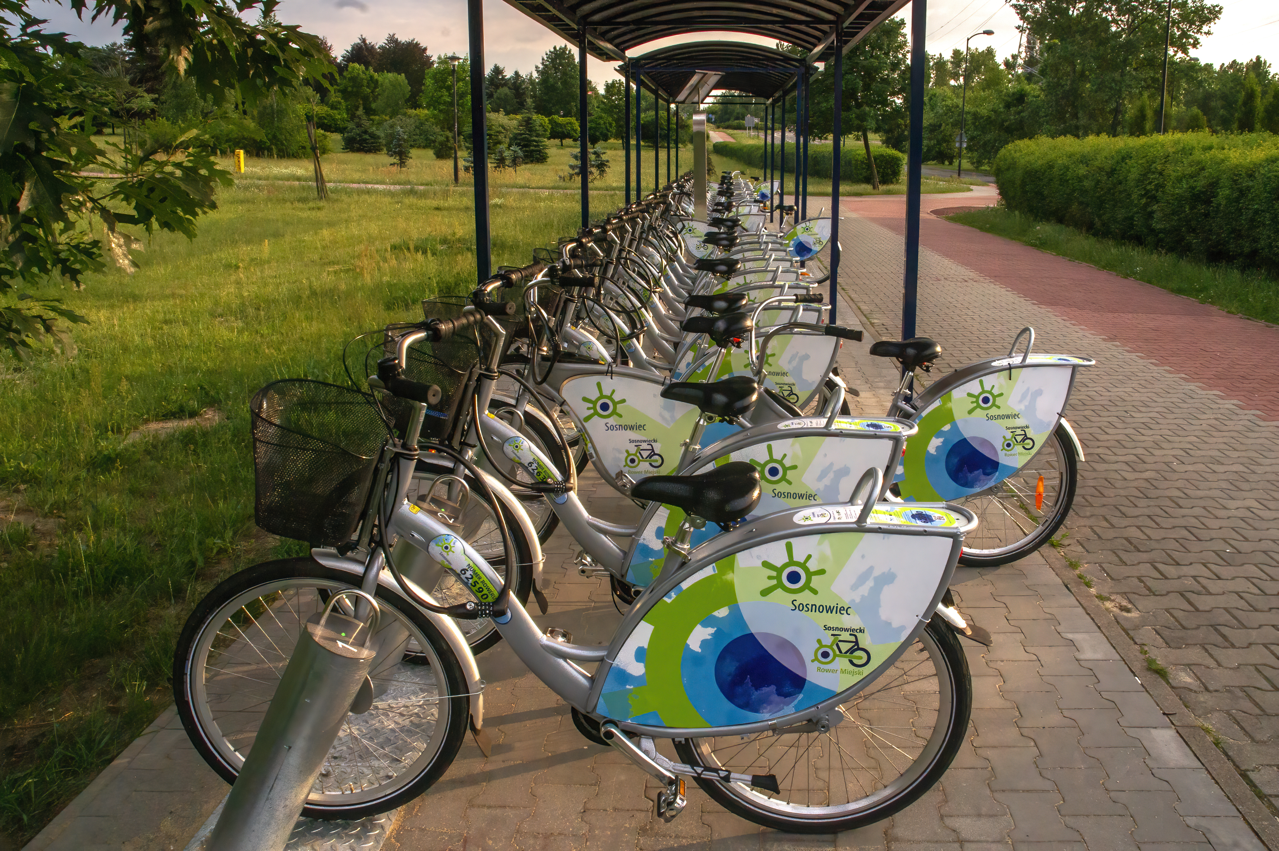 public city bike station in Środula Park in Sosnowiec